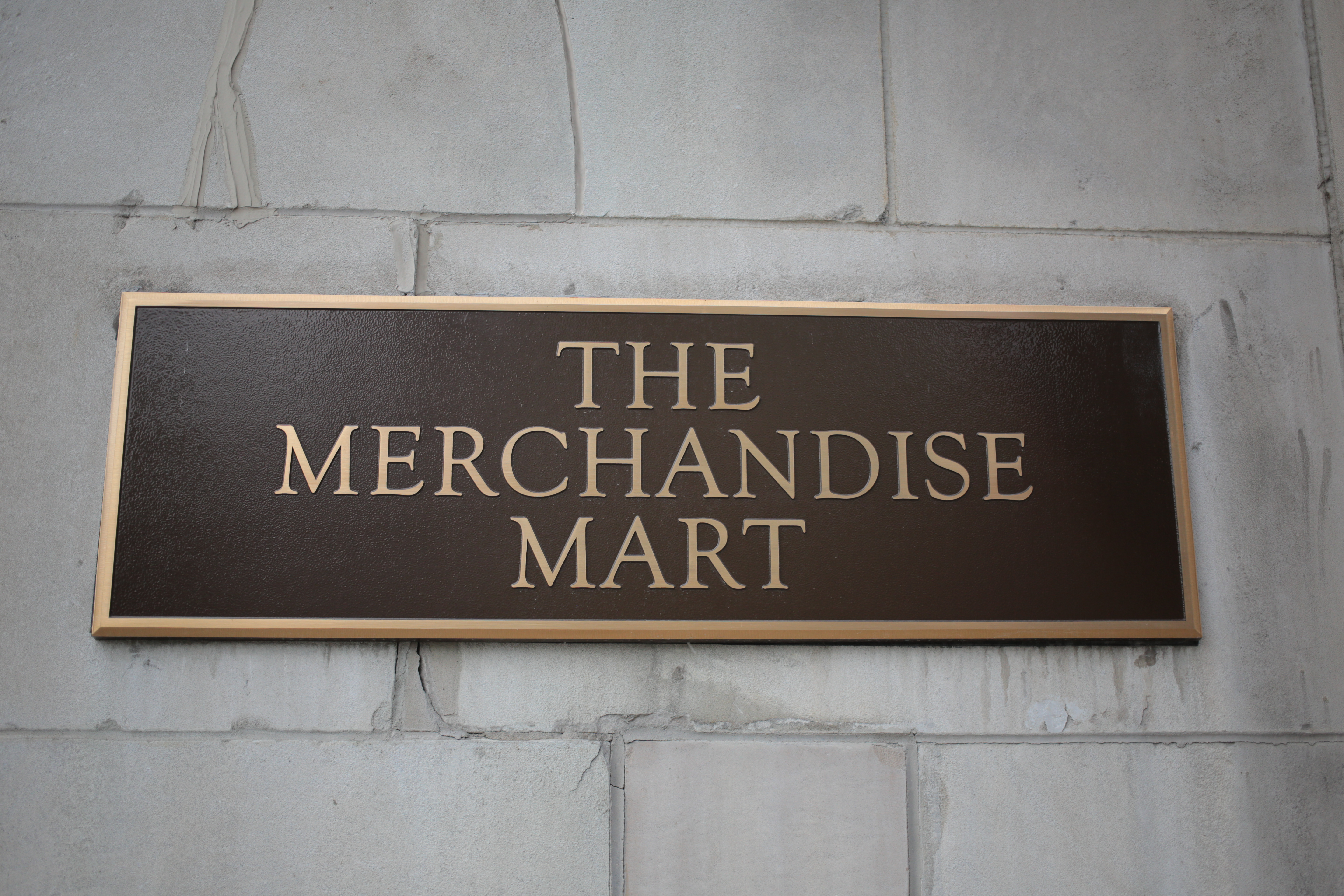 The Merchandise Mart Photo Walk Chicago September 2, 2013-4874